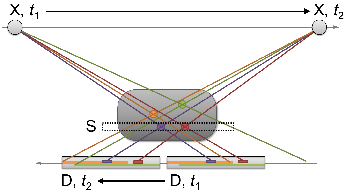 Technical principle of focal plane tomography. During the acquisition (from time t 1 {\displaystyle t_{1 to time t 2 {\displaystyle t_{2 ), X-ray source (X) and x-ray detector (D) are moving simultaneously in opposite directions. Only elements (purple, red) from a single slice (S) are depicted, details from all other slices (green, yellow) are blurred out.